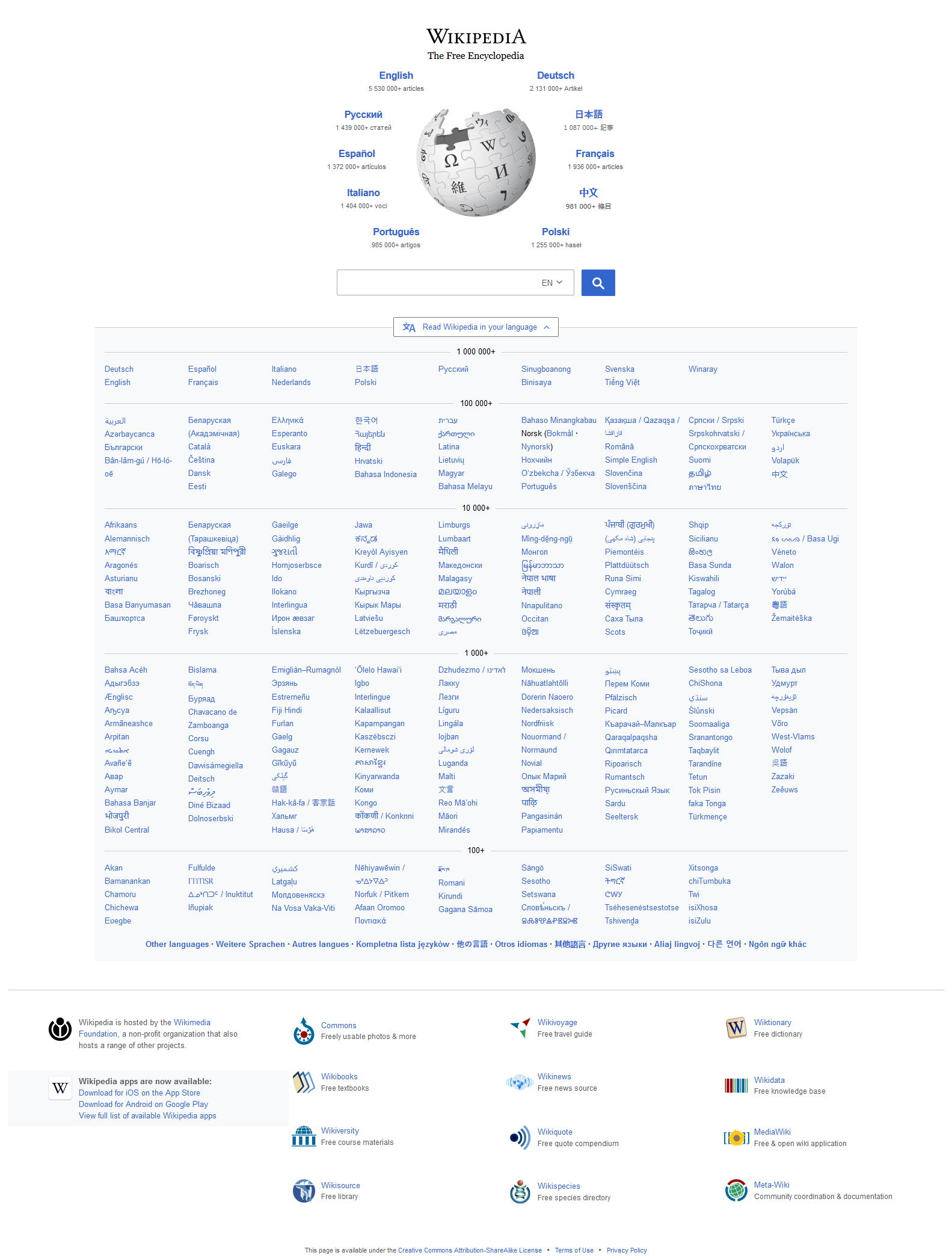 Screen photo of Wikipedia's multilingual portal at